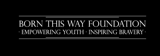 Logo for Born This Way Foundation